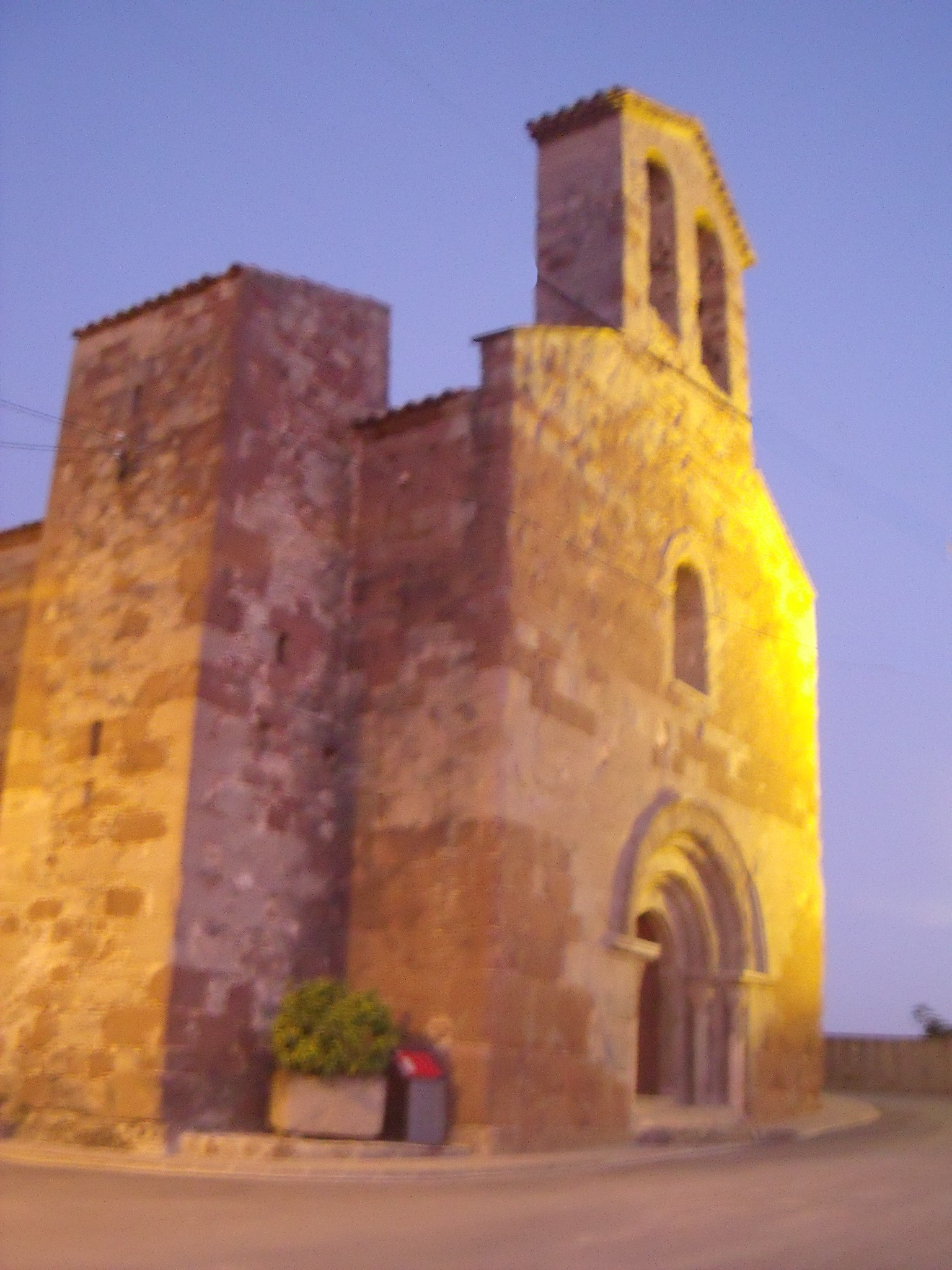 The 12th century church of Puig-reig, devoted to St. Martí